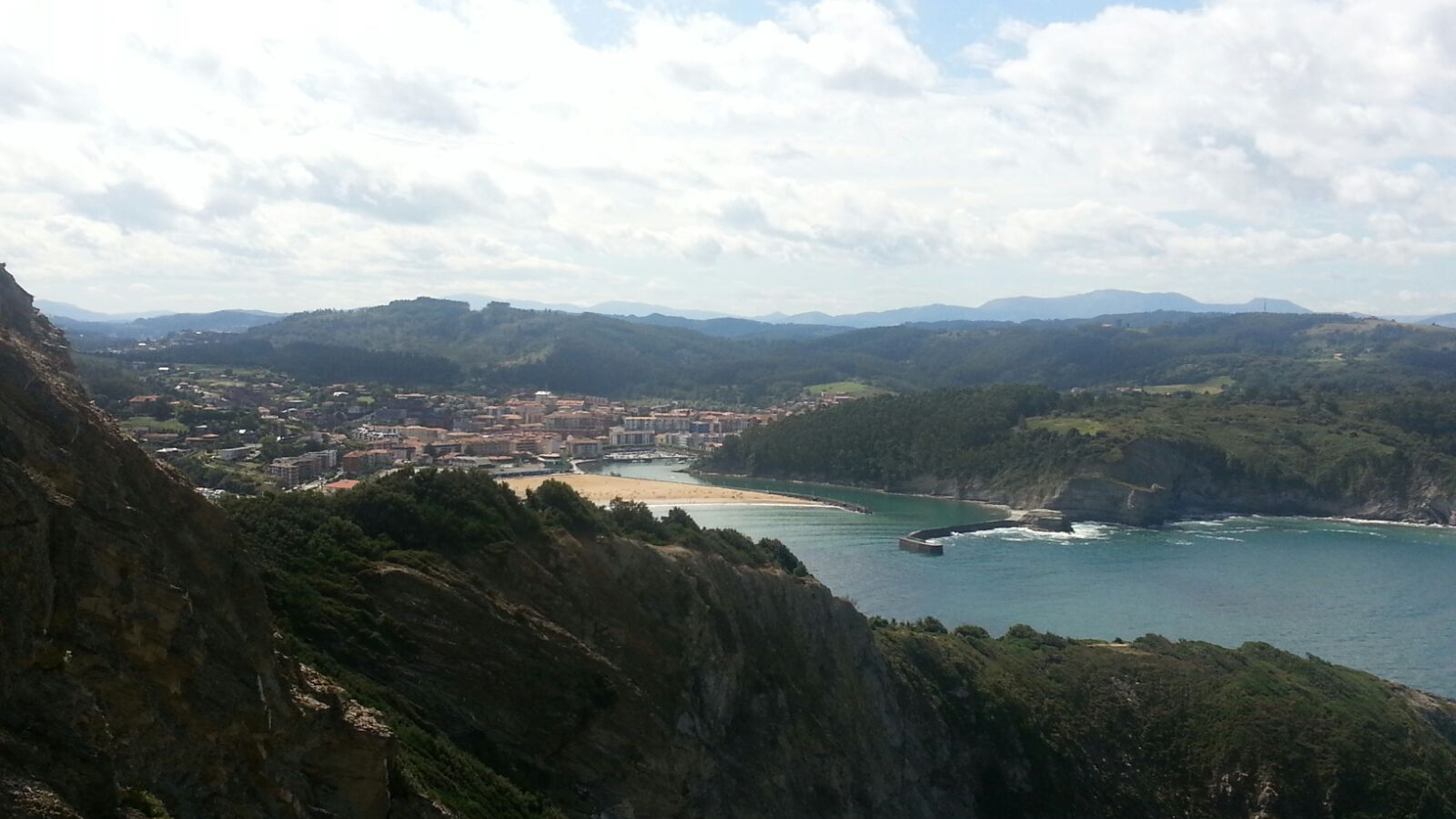 Views from the lighthouse of Gorliz